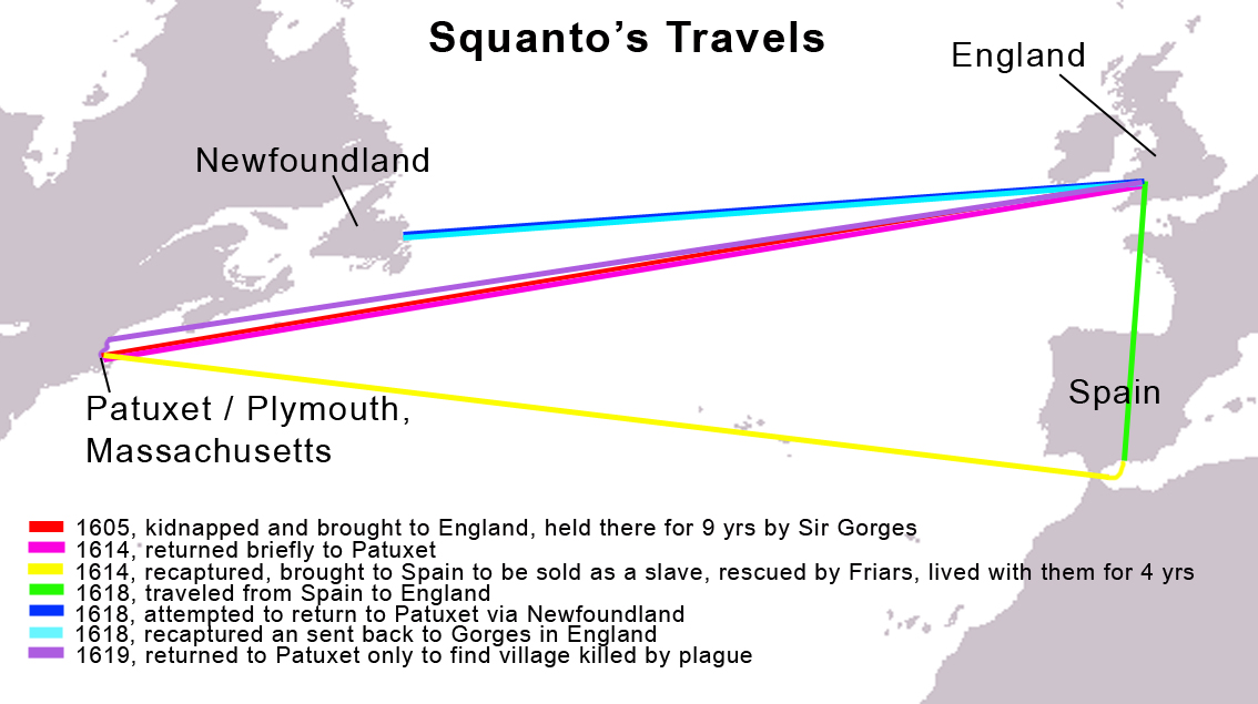 A map depicting the travels of Tisquantum, a.k.a. Squanto, the Native American who assisted the early British settlers in Massachusetts.